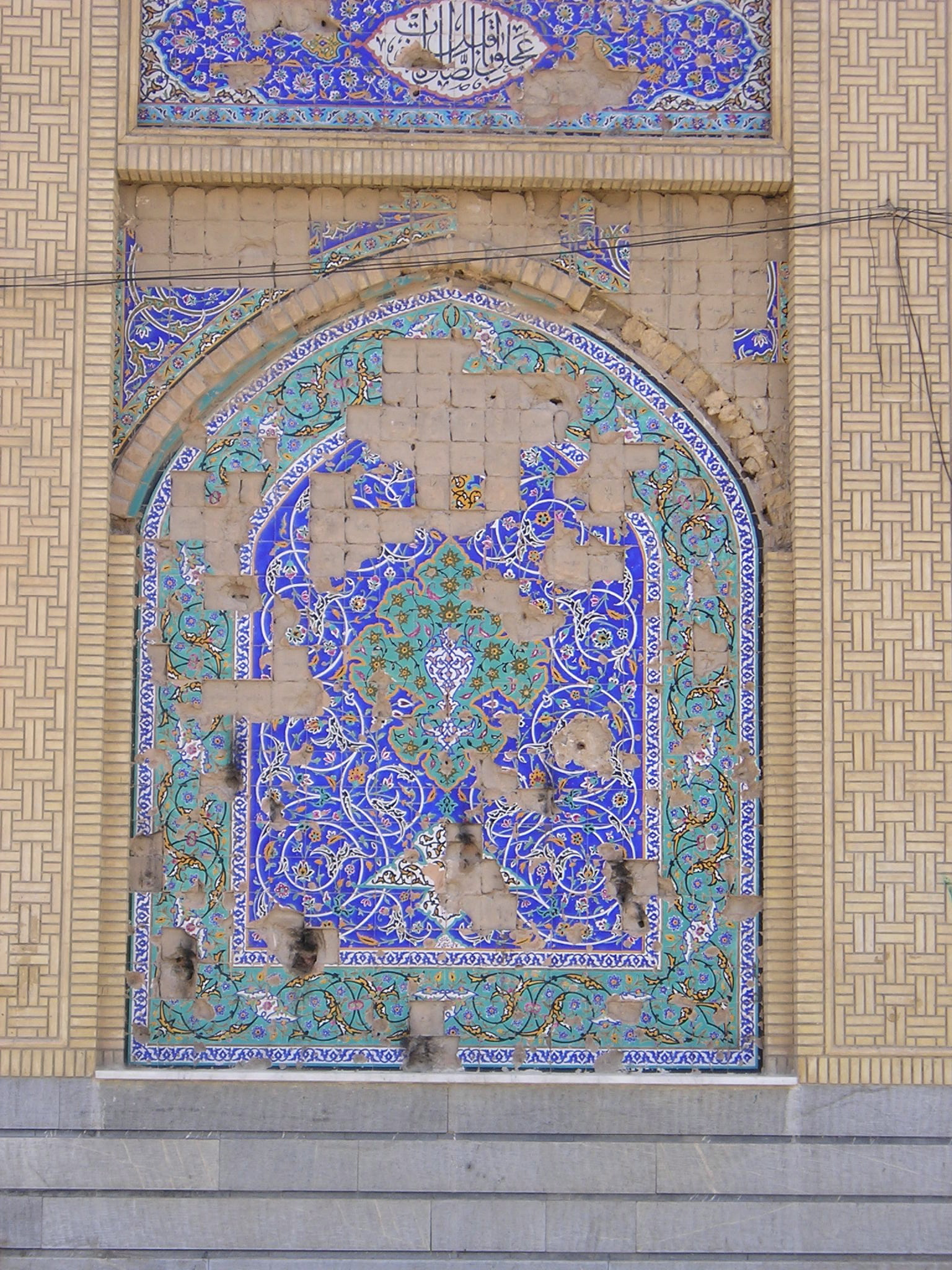 Iran-Iraq war damage to mosque tile works in Khorramshahr.